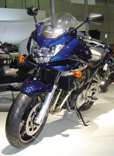 Suzuki Bandit1200S 2006 (2005 Tokyo Motor Show)